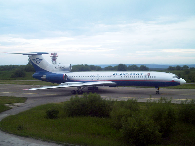 Tu-154M of "Atlant-Soyuz" in Irkutsk airport